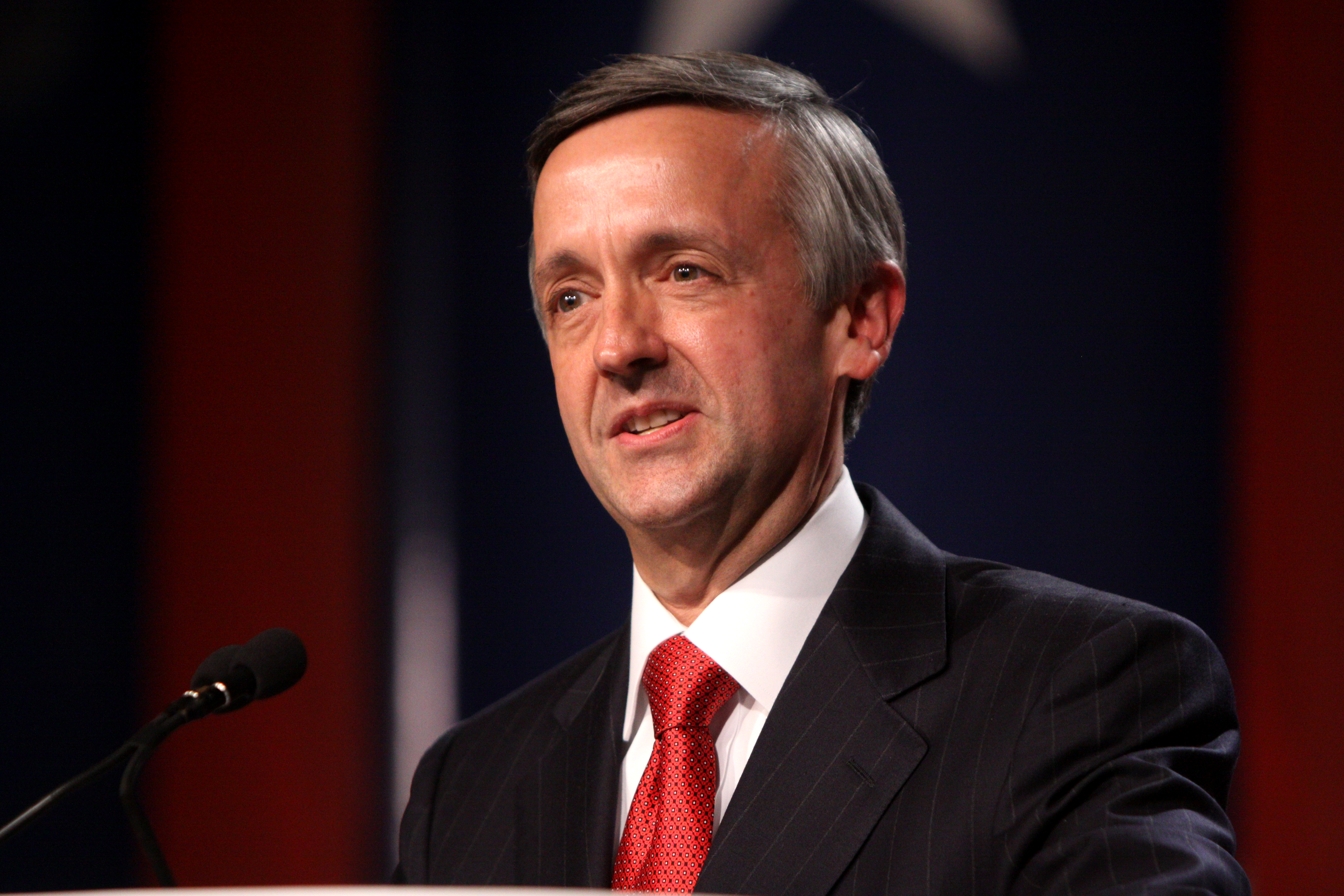 Robert Jeffress speaking at the Values Voter Summit in Washington, DC on October 7, 2011